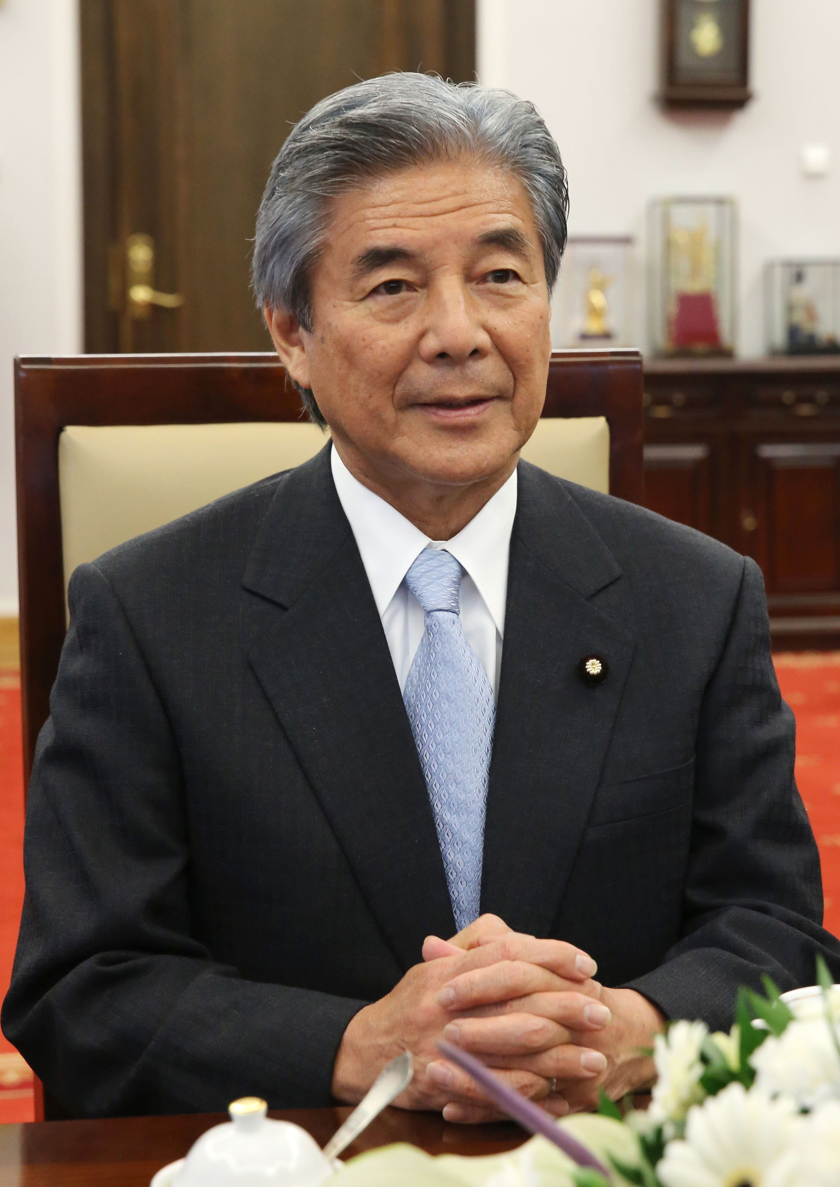 Senator Hirofumi Nakasone w Senacie in the Polish Senate